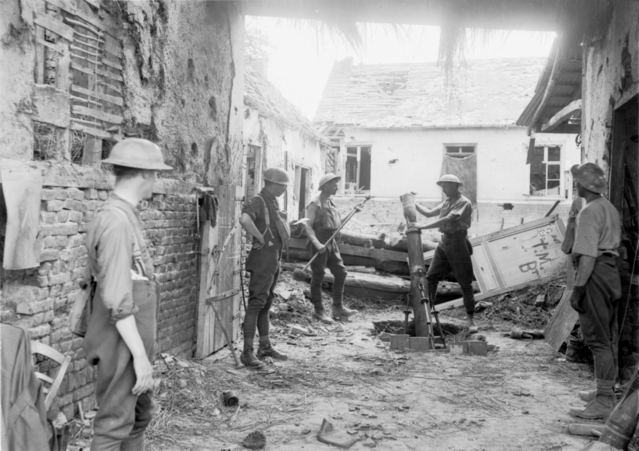 A medium trench mortar and crew of the 3rd Australian Medium Trench Mortar Battery, 2nd Division, in action in a farmhouse 400 yards from the German front lines. Gun position selected and made use of to support Infantry raid prior to attack on Morlancourt village. Left to right: Lieutenant (Lt) J. Arthur Lt L. C. Reeves Gunner (Gnr) W. Commons, holding cleaning rod Gnr G. Parker, loading mortar Corporal P. Barber Place made: France: Picardie, Somme, Ville-sur-Ancre Comment : The mortar is a 6 inch Newton Mortar. NOTE : This version of the photograph has brightness and contrast artificially increased to highlight details.